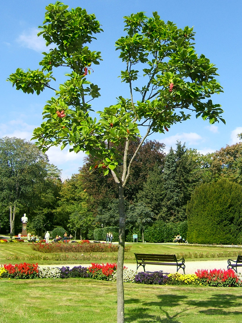 Saucer Magnolia in spa gardens Bad Homburg vor der Höhe, Germany